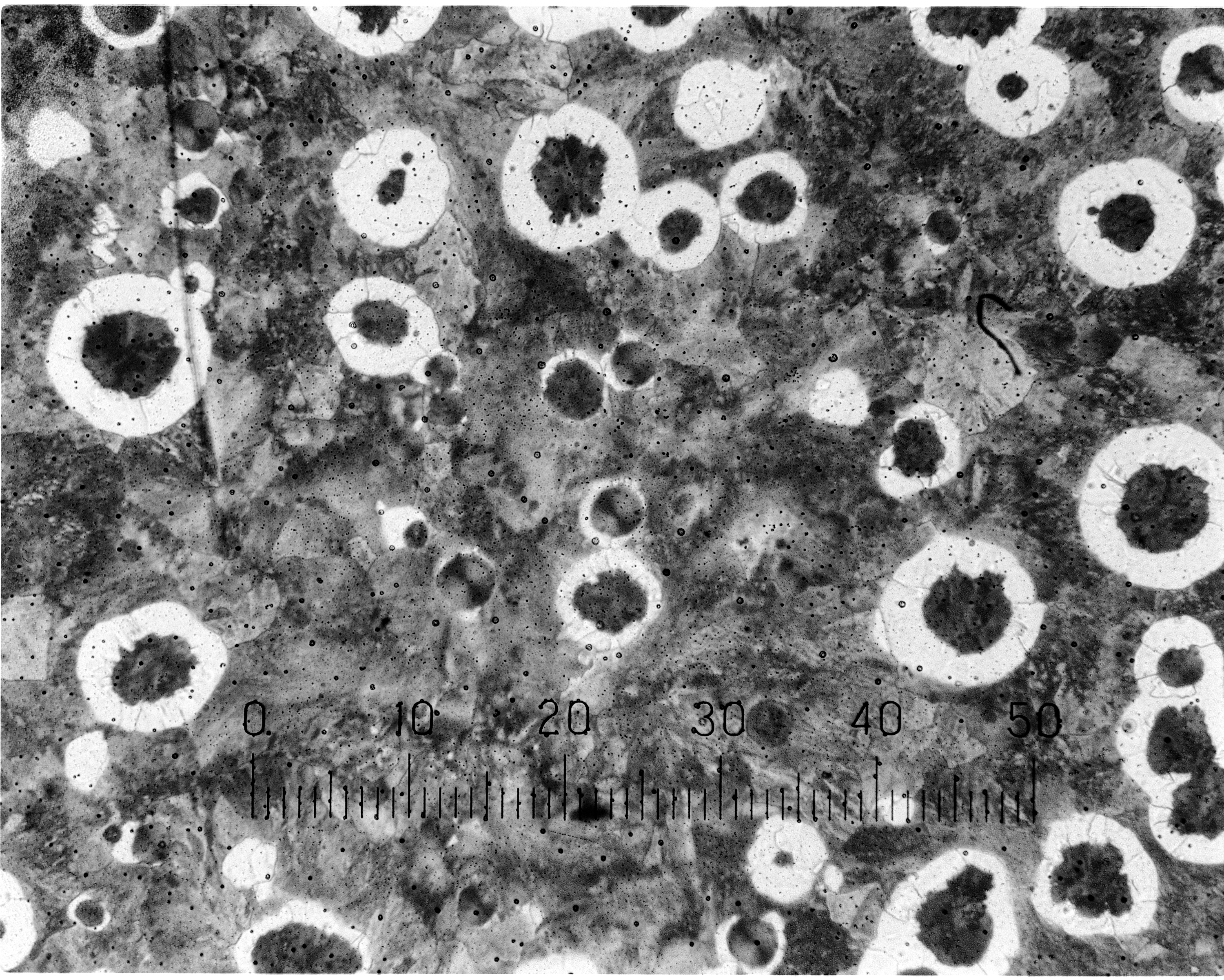 Micrograph of ductile iron; black nodes of spheroidal graphite are surrounded by white areas of pure iron